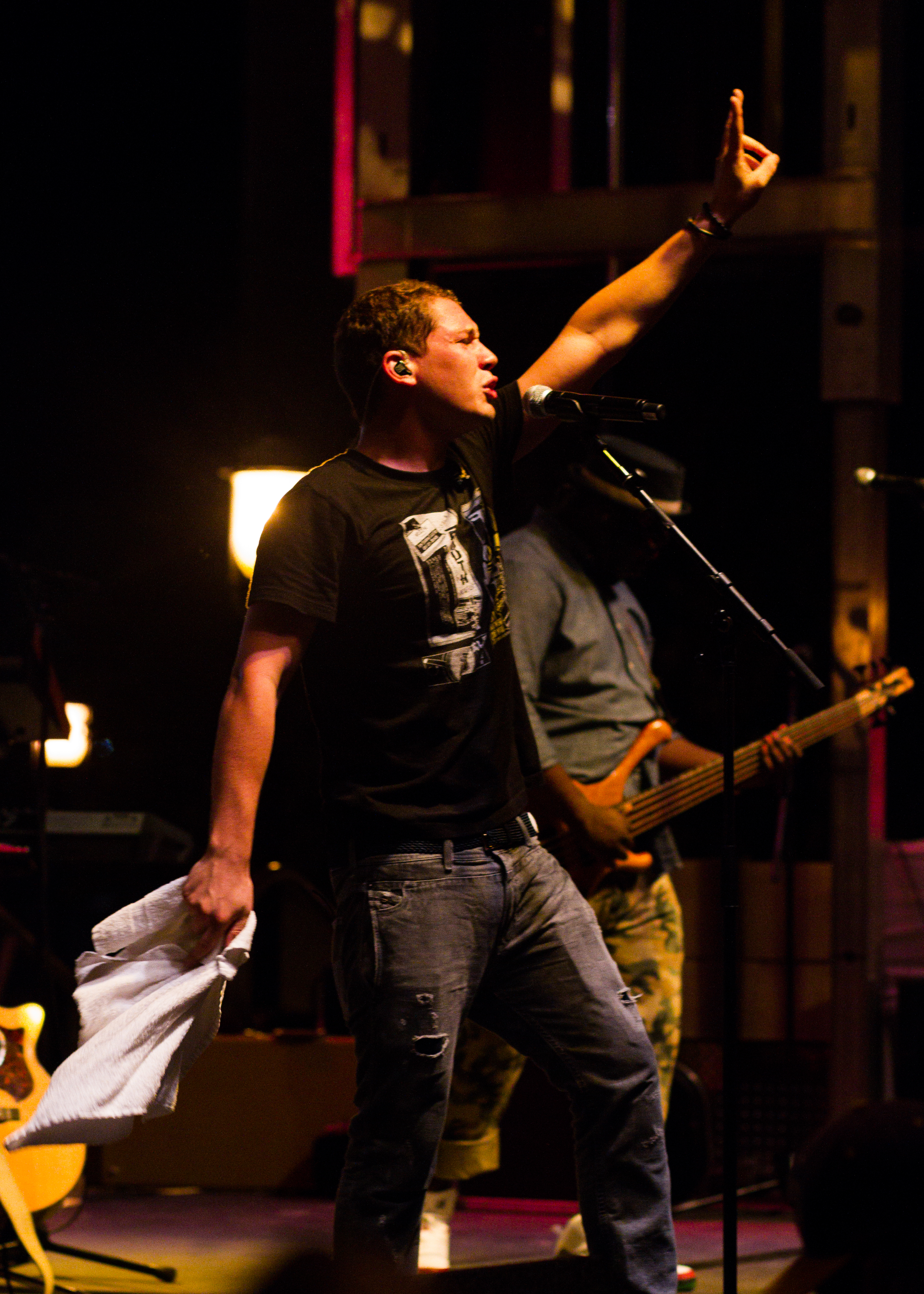 Cris Cab performing on Carnahan Quad at the University of Missouri.